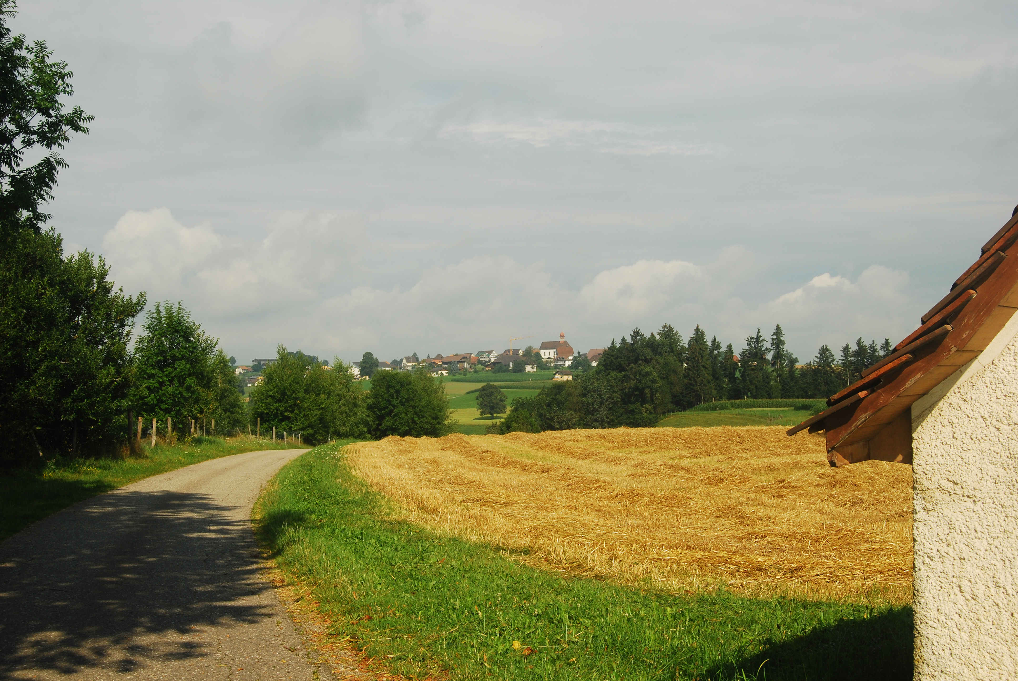 Ufhusen, canton of Lucerne, Switzerland